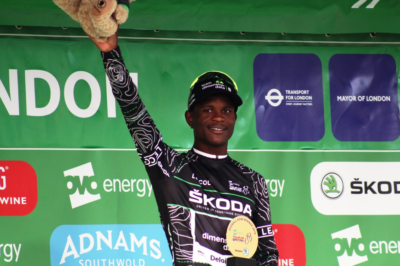 Nick Dlamini receives his prize for winning the Skoda King of the Mountains competition in the 2018 Tour of Britain.